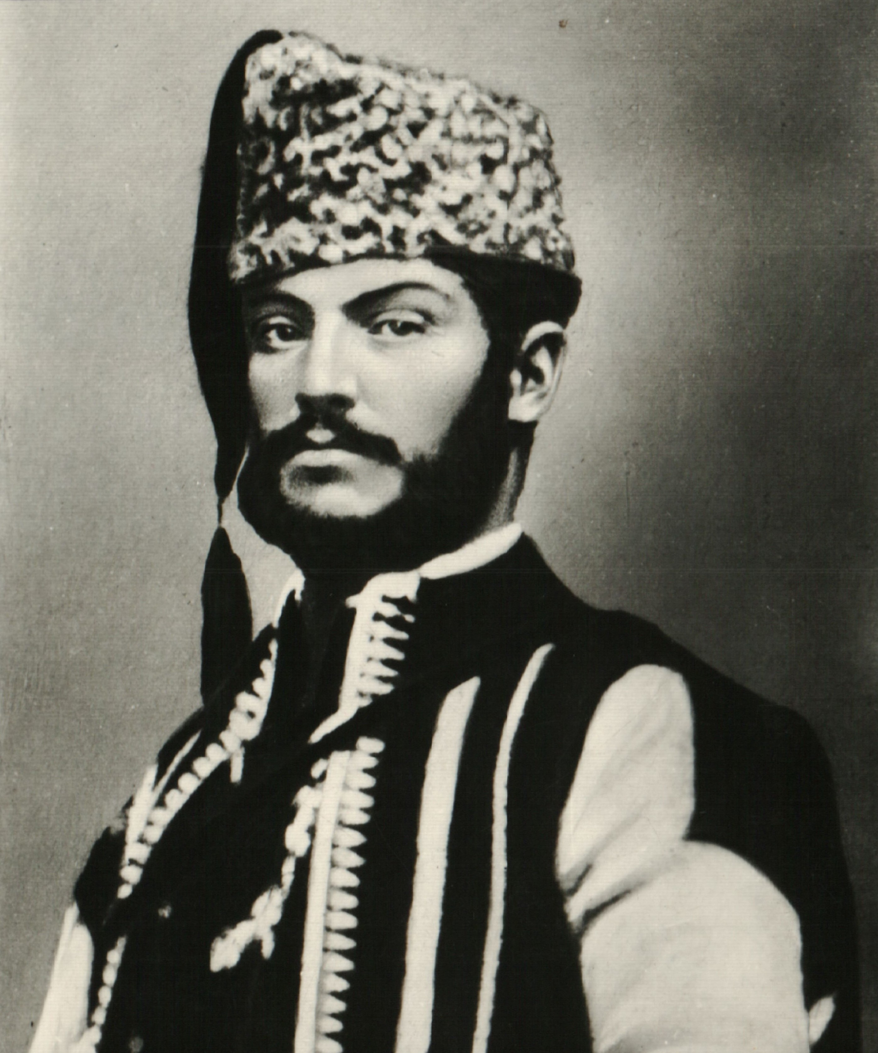 Bulgarian poet and writer Stefan Karadzha